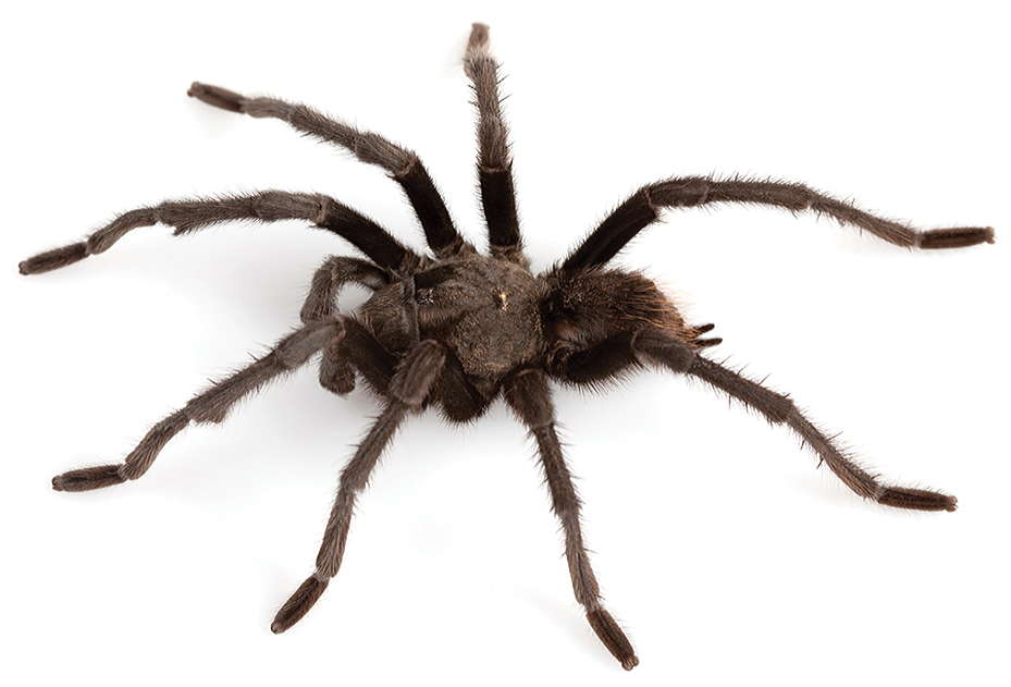 Aphonopelma gabeli male